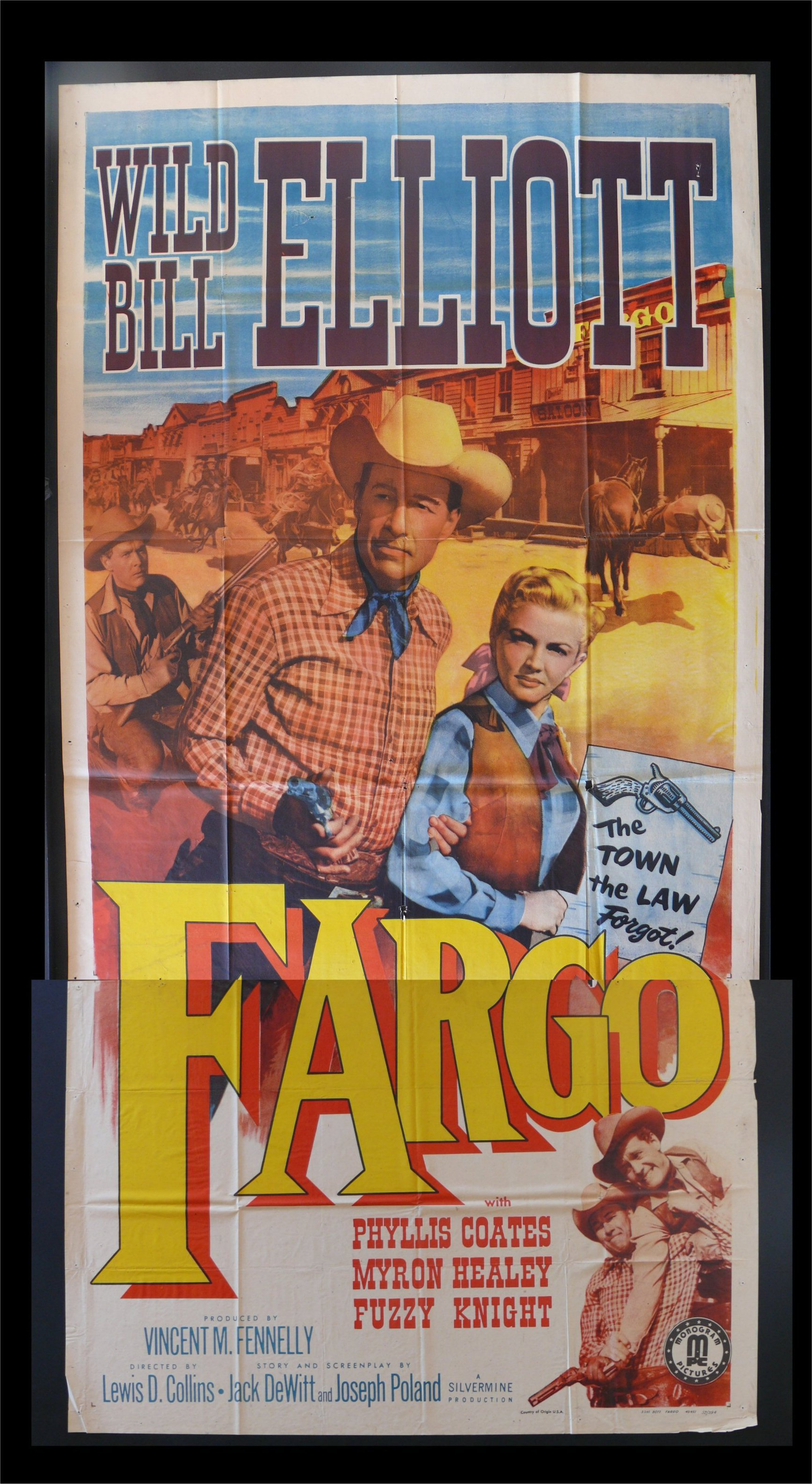 Fargo (1952) movie poster. Starring Wild Bill Elliott.